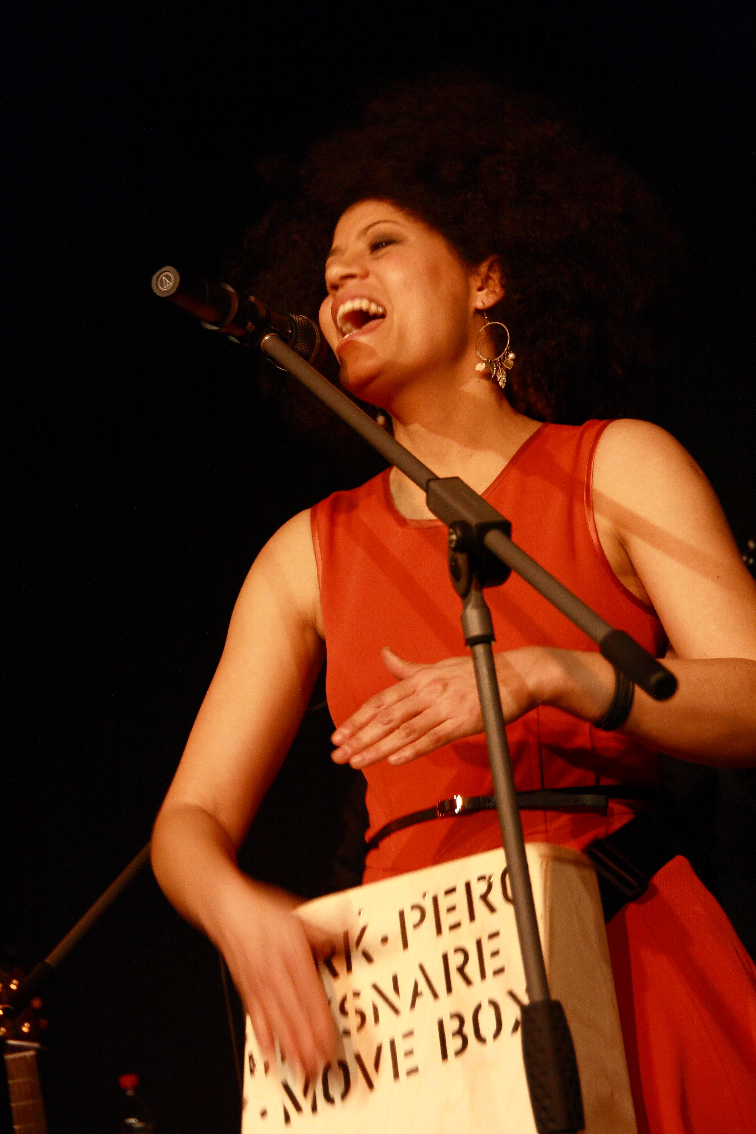 Cuban singer/songwriter Addys Mercedes with En Casa de Addys and her daughter Lia (violin) in concert at KULT, Niederstetten.